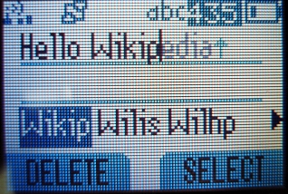 A photo of iTap in action (typing "Hello Wikipedia"), on a Motorola C350 cell phone.